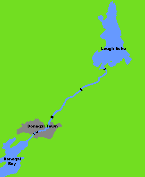 The flow and bridges of River Eske, Co. Donegal, Ireland, which flows between Lough Eske and Donegal Bay at Donegal Town.